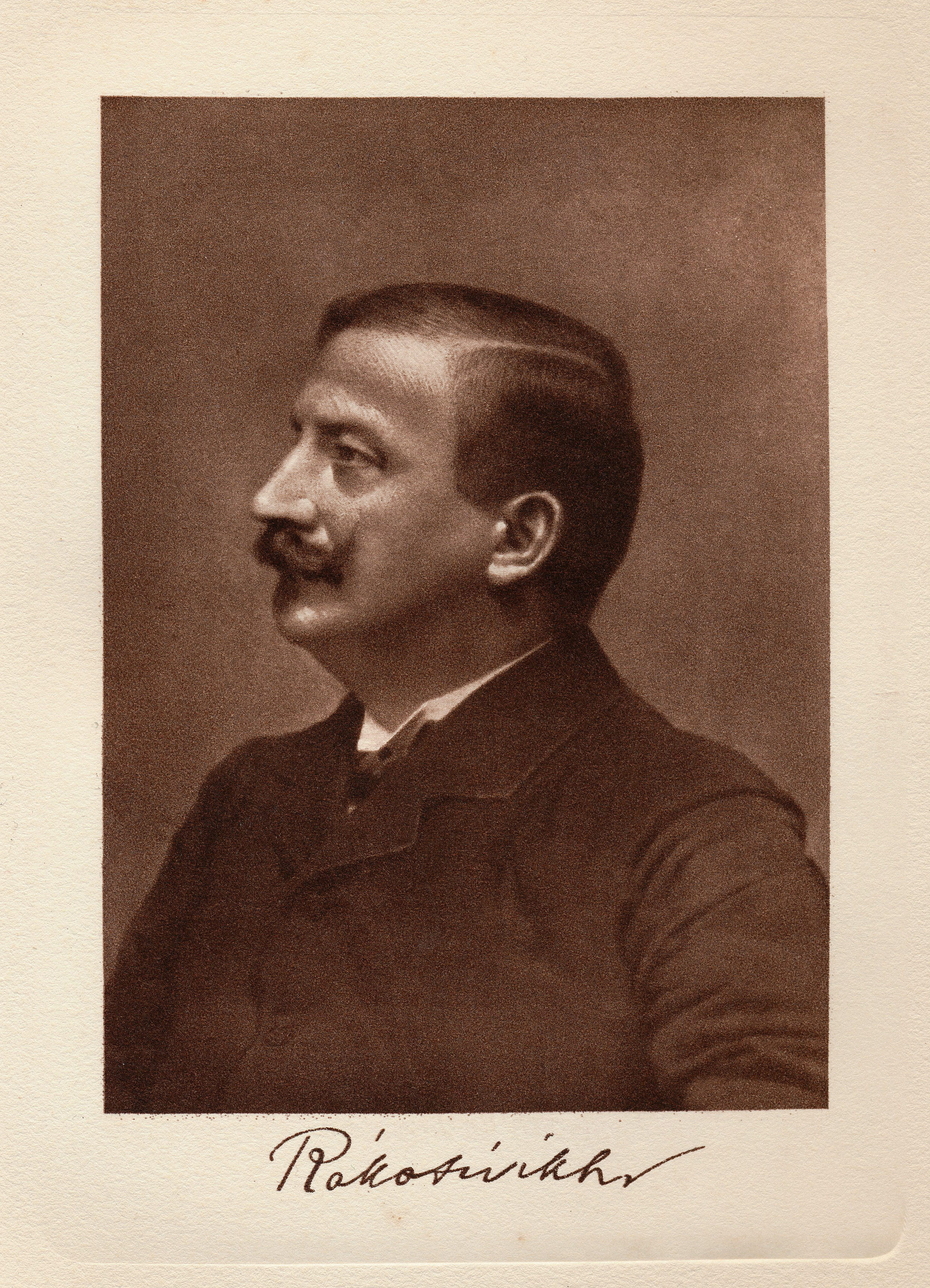 Viktor Rákosi (1859-1923) Hungarian writer